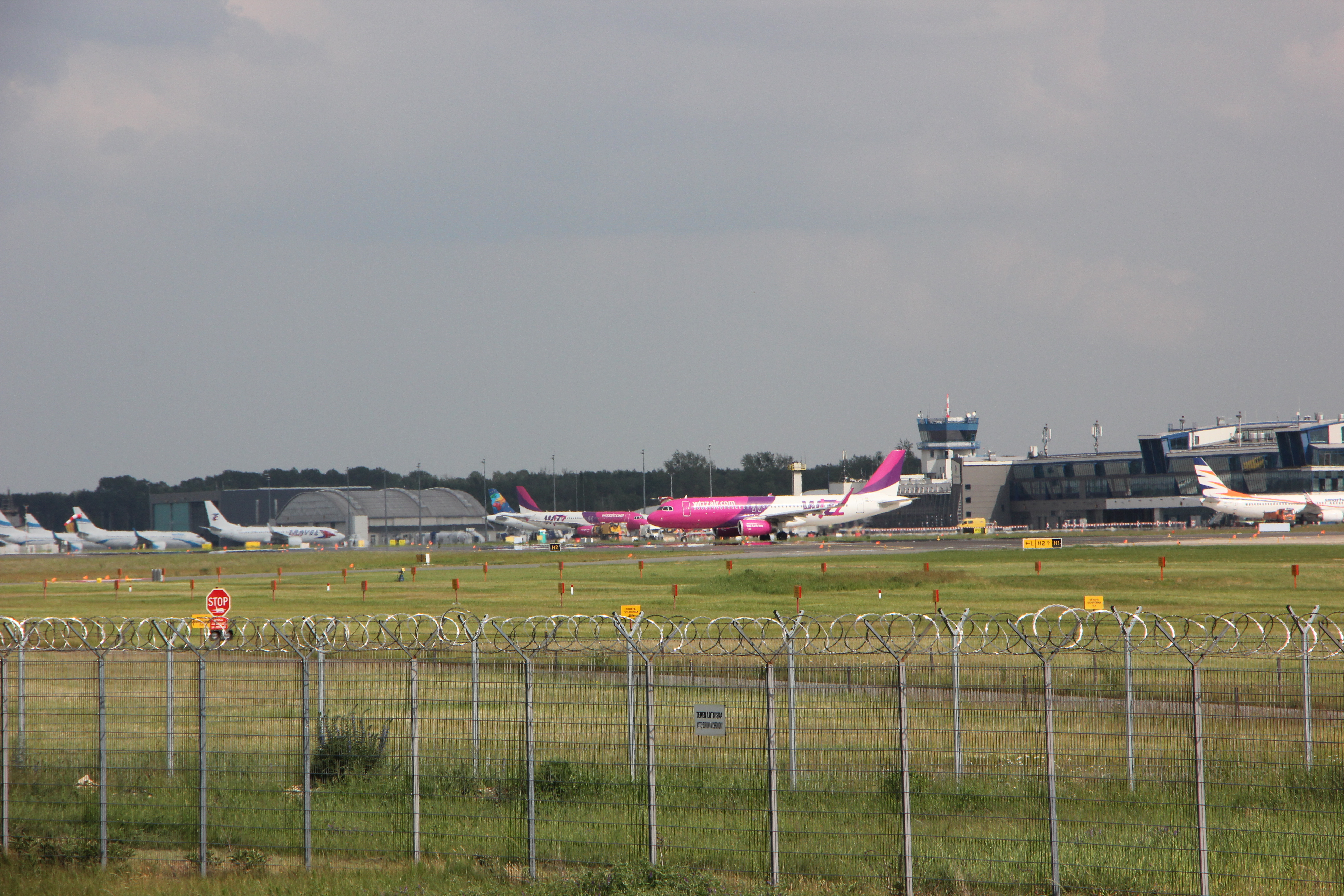 View from spotter's platform